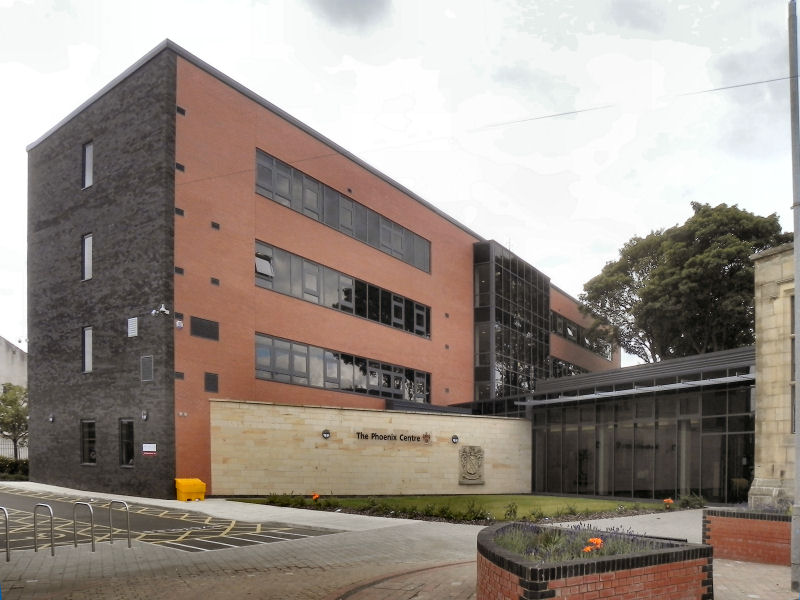 The Phoenix Centre, Data from Geograph: Description: Health and community services centre, opened in November 2009. and for more information ICBM: 53.592218931545, -2.2183168751634 Location: (about 1 km from) near to Heywood, Rochdale, Great Britain.